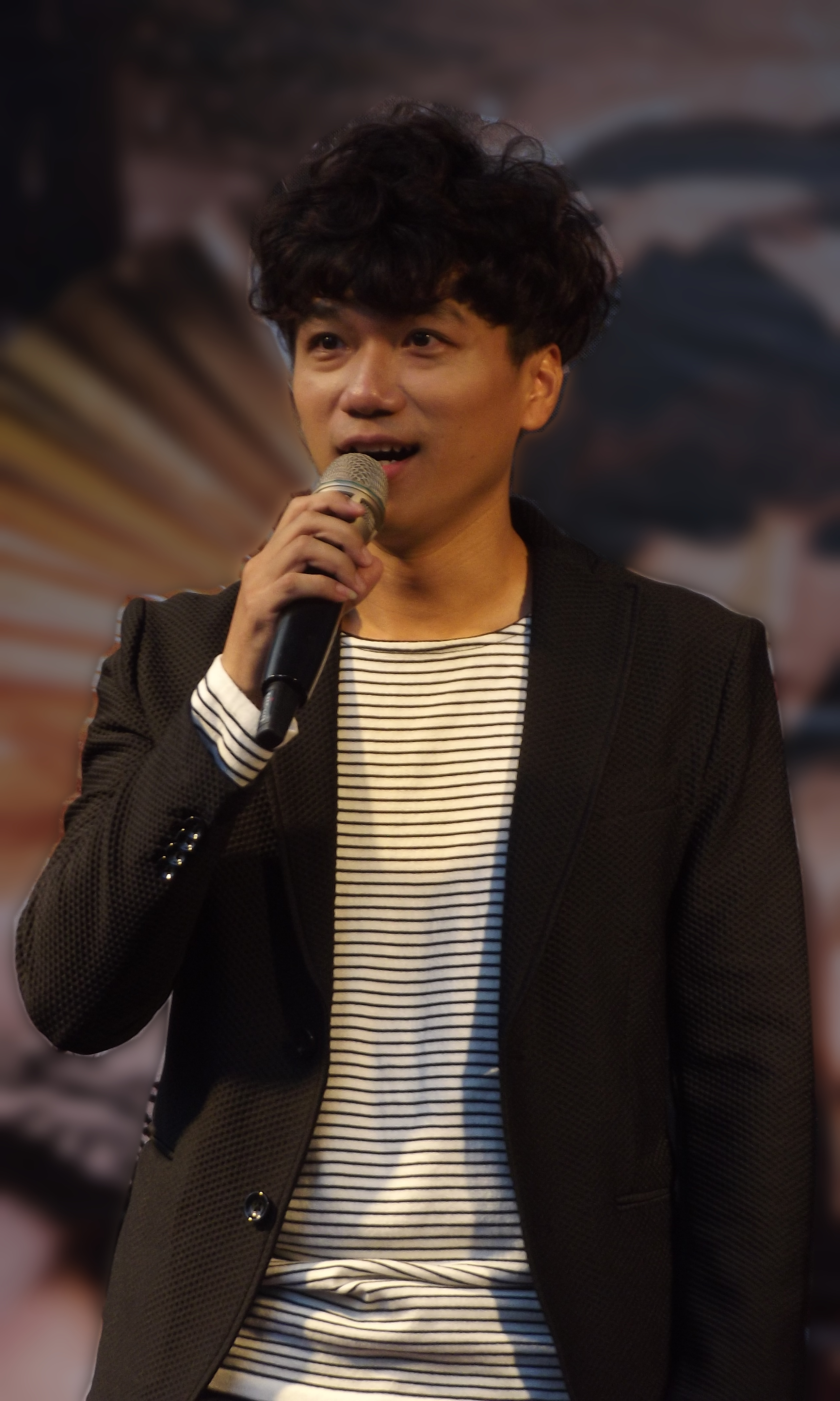 Steven Huang, Director of Bang Bu Bu in Taiwan.